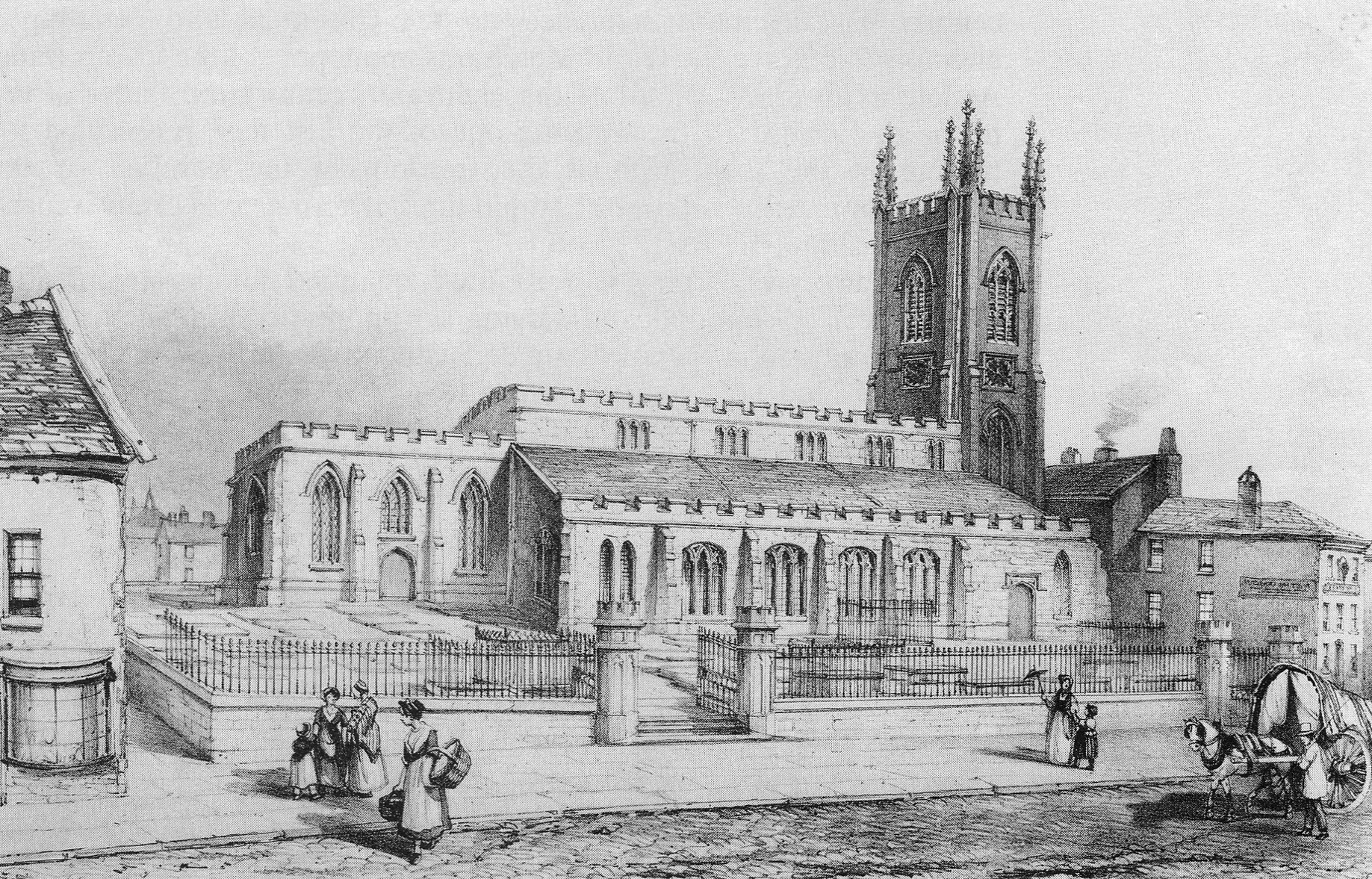 Lithograph of the former St John's parish church, Preston, Lancashire, demolished in 1853, on the site of the present Minster